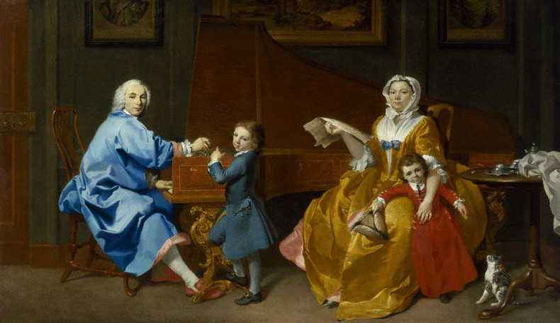 The Shudi Family Group - Burkat Shudi is tuning a harpsichord